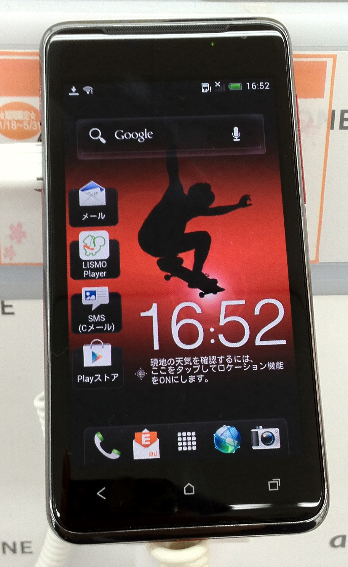 ISW13HT